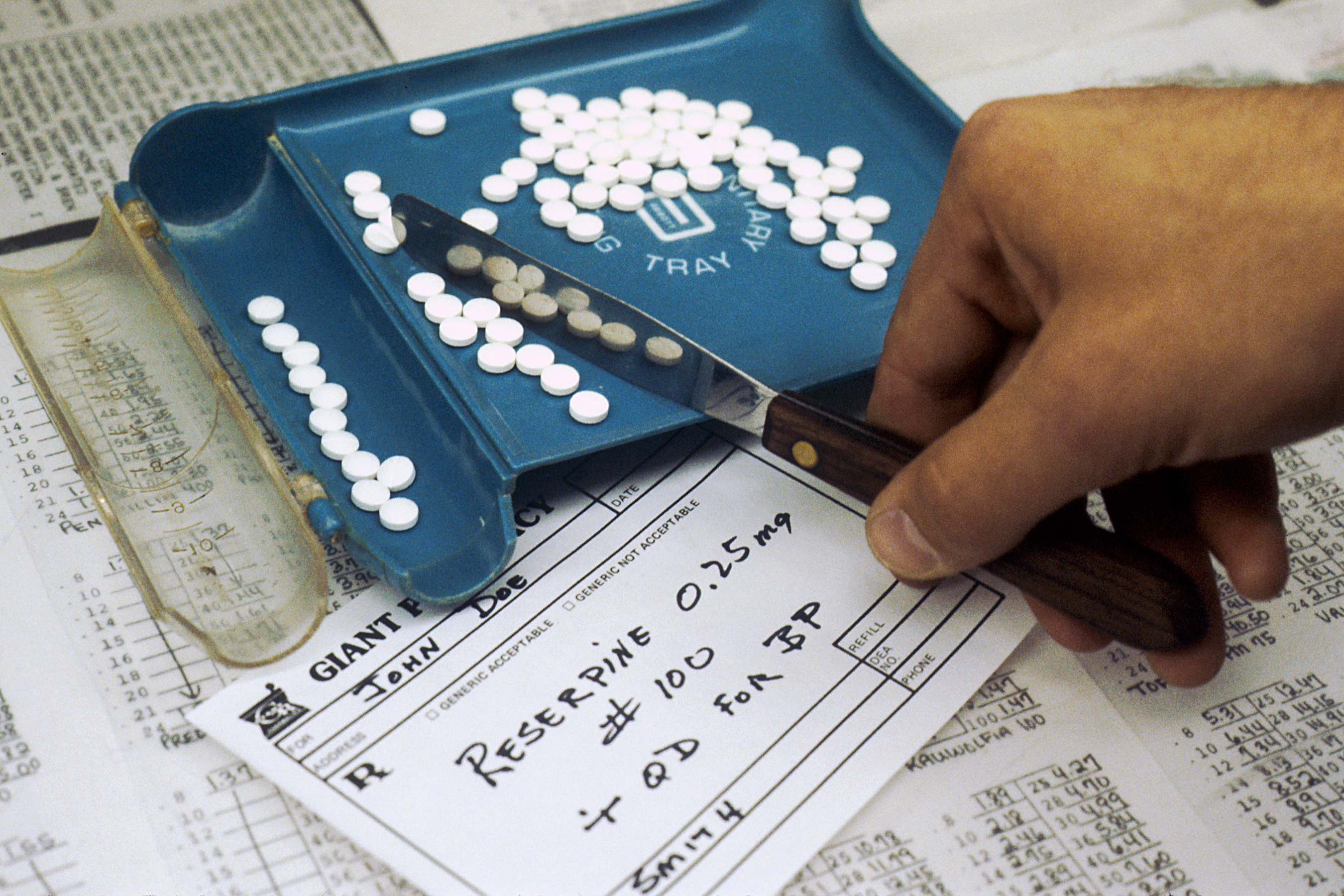 Title: Treatment: Drugs: Pharmacy Description: Seen is the drug Reserpine in tablet form being counted out to fill a prescription in a pharmacy. Subjects (names): Topics/Categories: Treatment -- Drugs/Chemotherapy Type: Color Slide Source: National Cancer Institute Author: Linda Bartlett (photographer) AV Number: AV-8000-3722 Date Created: 1980 Date Added: 1/1/2001 Reuse Restrictions: None - This image is in the public domain and can be freely reused. Please credit the source and/or author listed above.